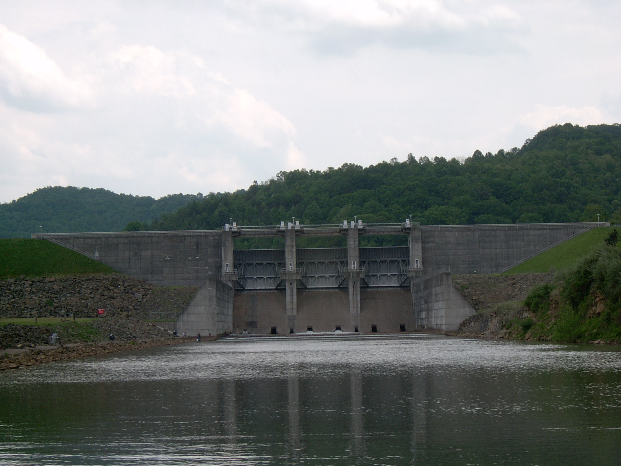 Burnsville Dam on the Little Kanawha River near Burnsville, West Virginia.